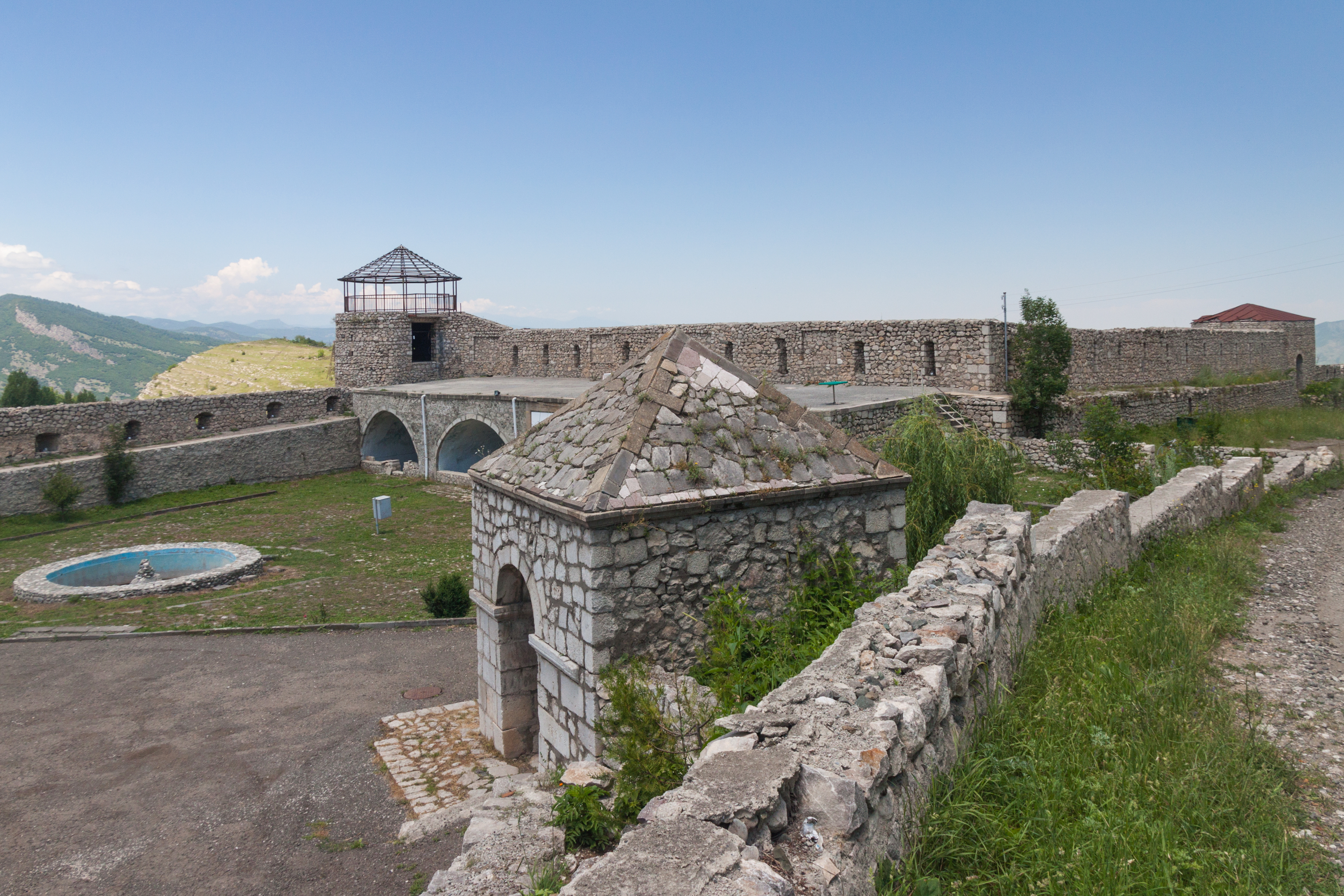 Shusha fortress. Shushi/Shusha, Nagorno-Karabakh.